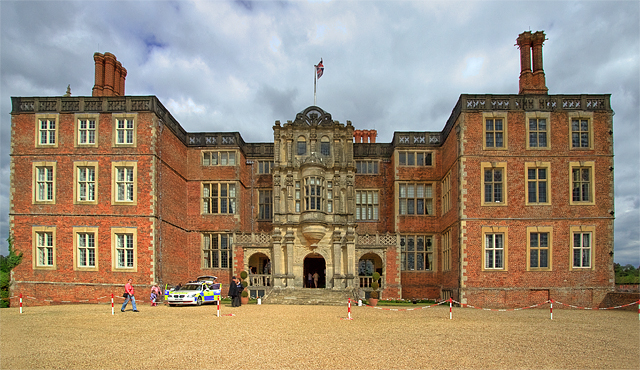 Bramshill House, nr Hazely, Hampshire